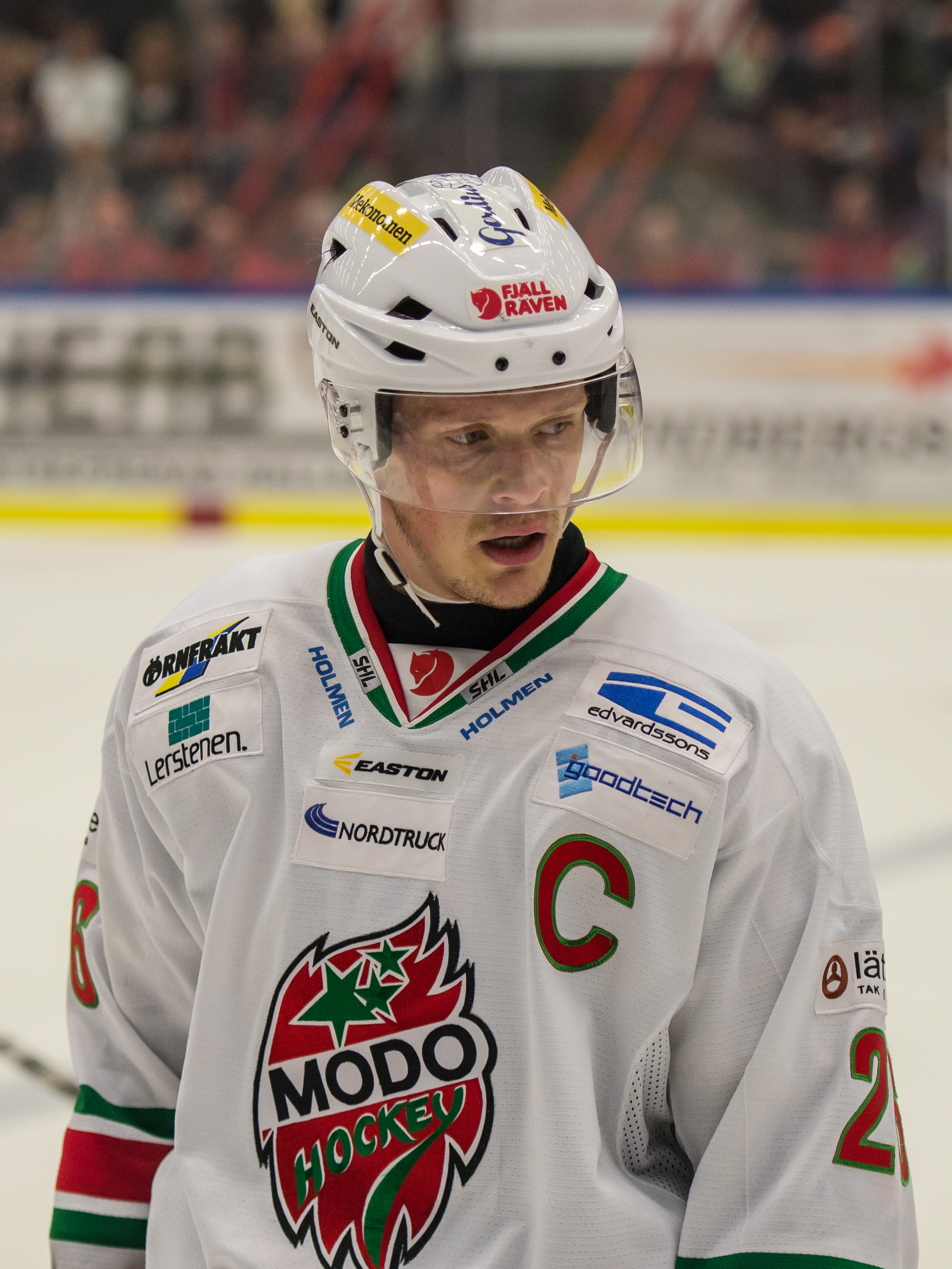 Samuel Påhlsson playing for MODO Hockey in SHL (Swedish Hockey League – Sweden's highest league) vs Örebro HK in Behrn Arena 2013-10-05.